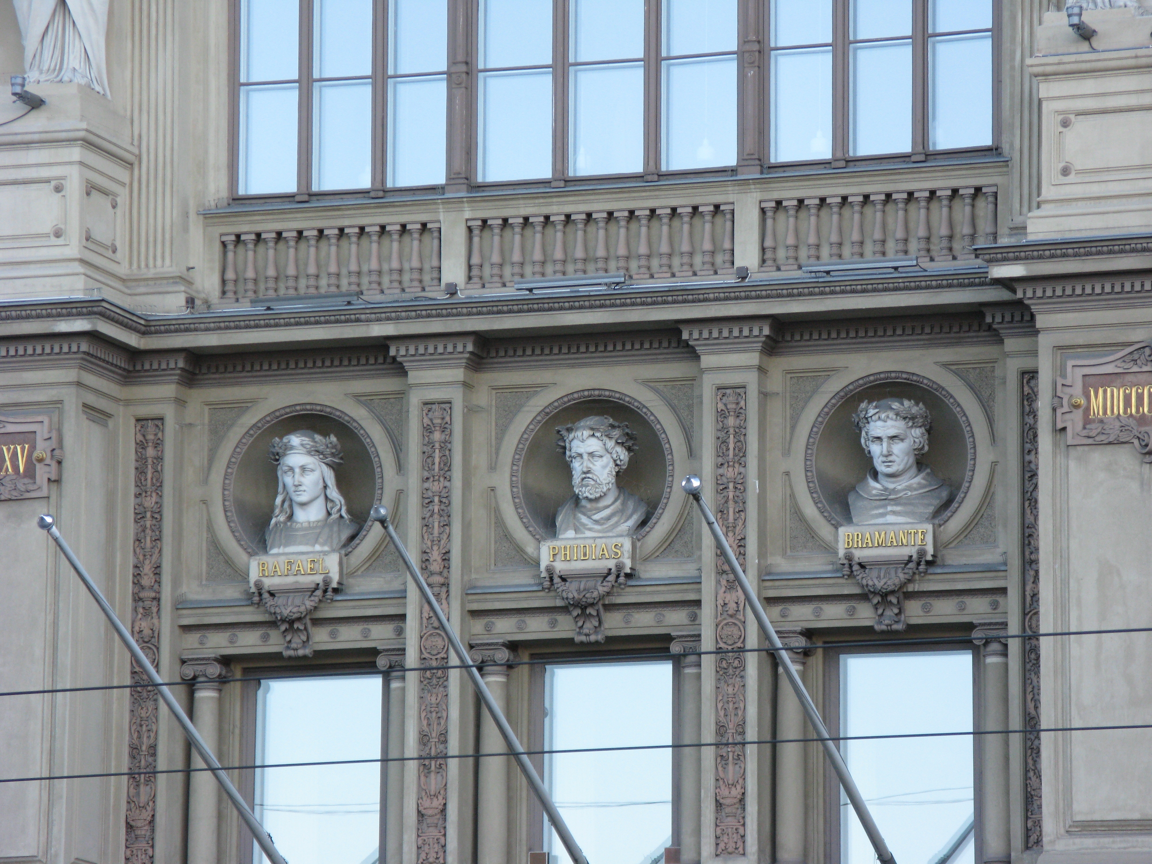 Part of the facade of the Ateneum art museum, Helsinki, Finland